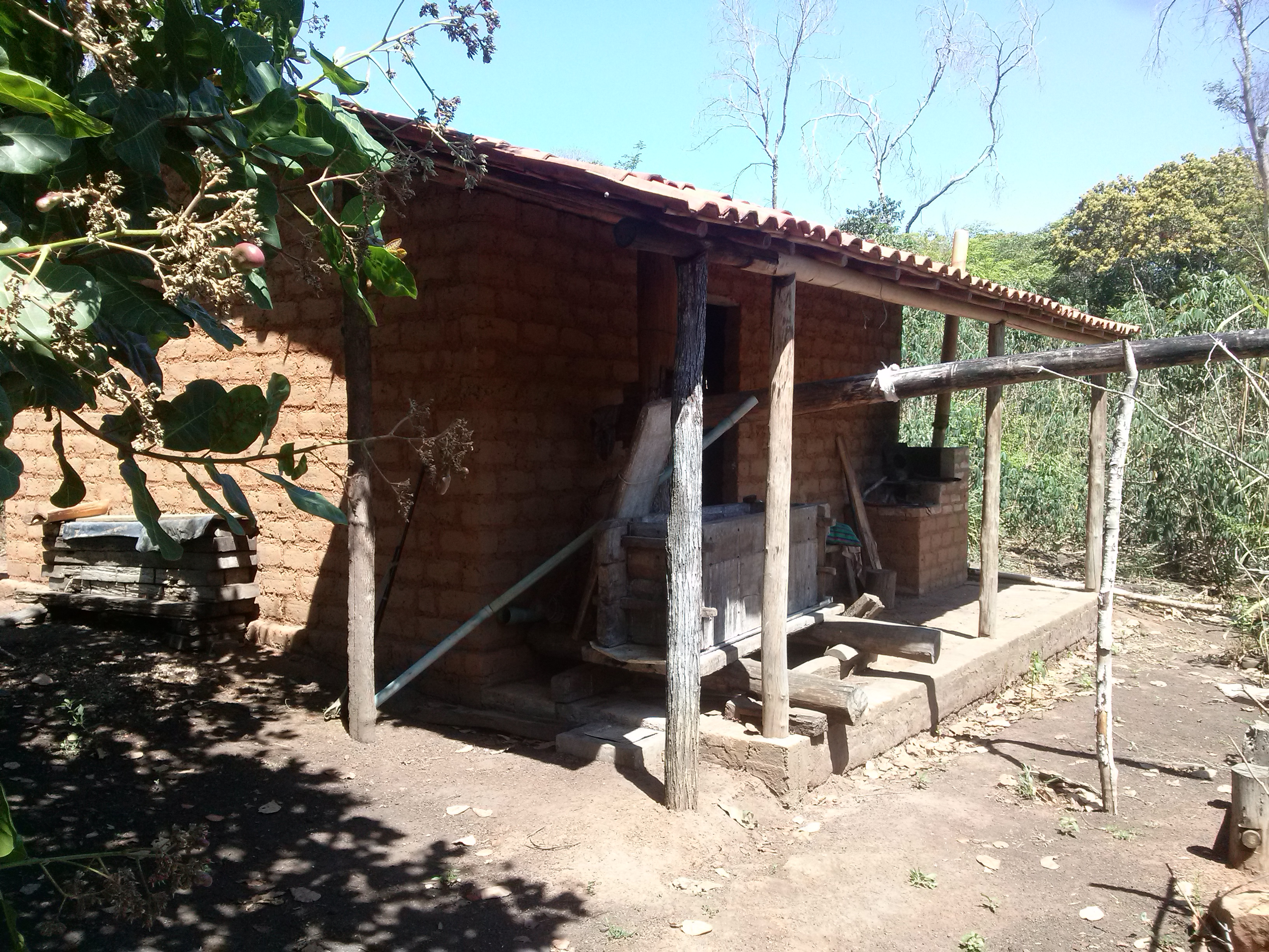 House where the cassava flour is made.